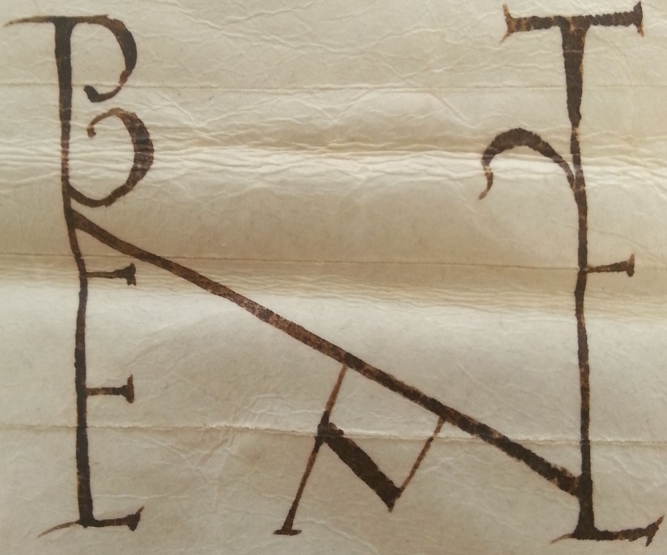 Bene valete of Pope Innocent II on a charter from 23 January 1134